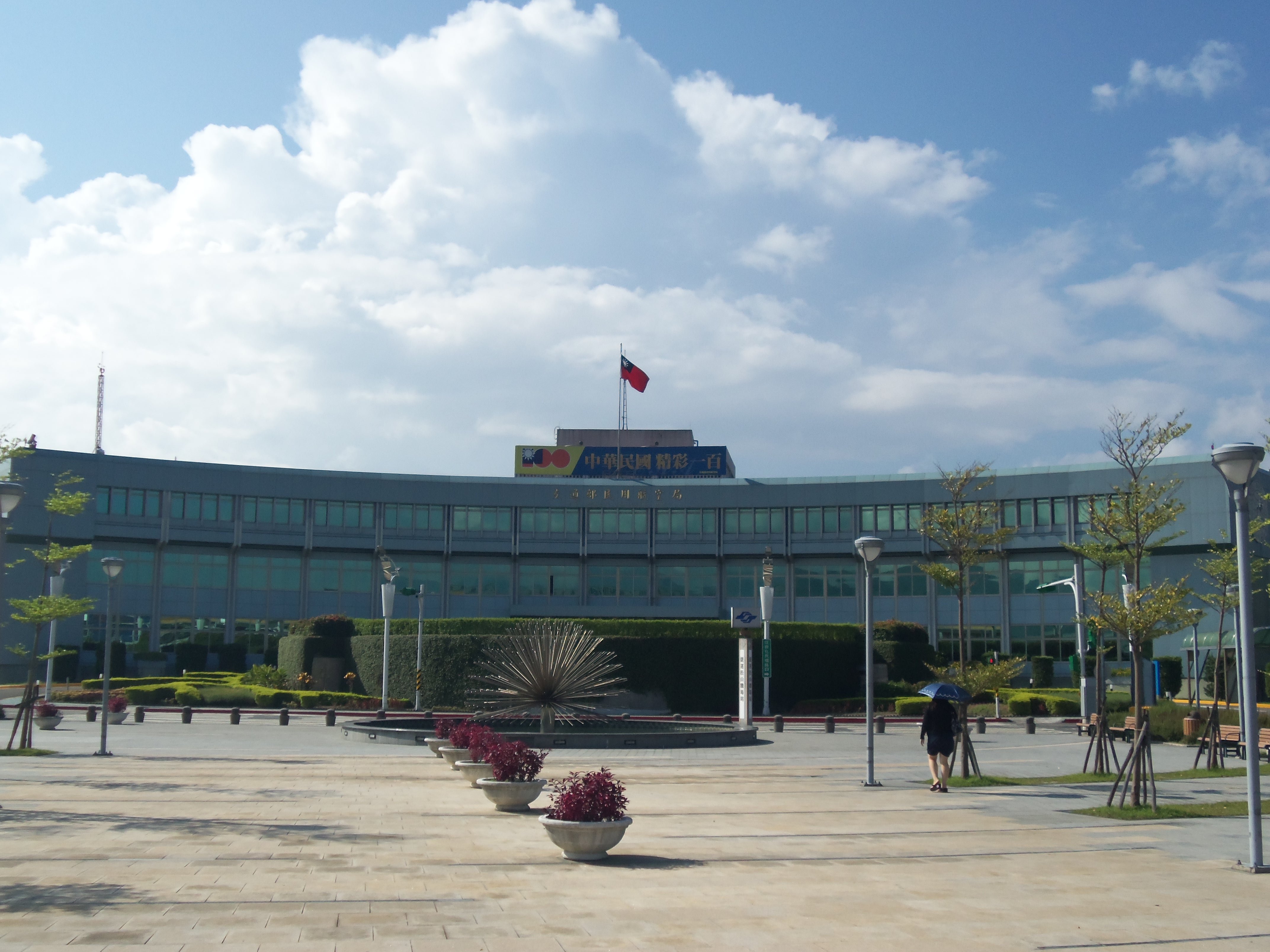 Civil Aeronautics Administration Building with the advertisement of 100th anniversary of the Republic of China.